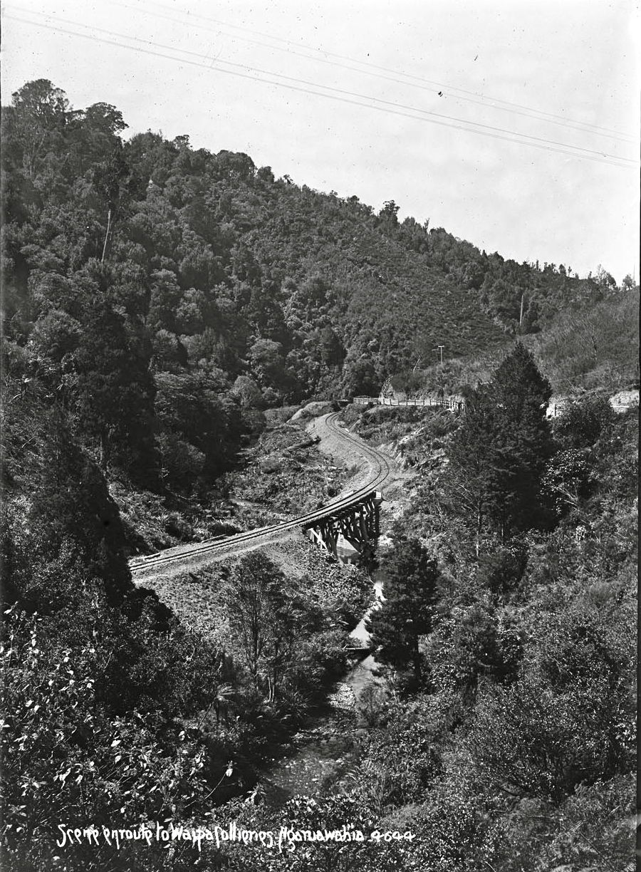 An undated photo of a bridge over Firewood Creek, probably about 1917: Sir George Grey Special Collections, Auckland Libraries, 35-R959